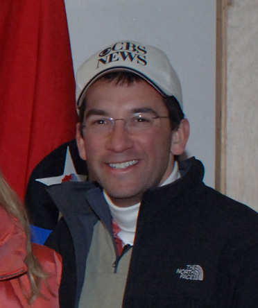 Reporter and weatherman for the CBS's The Early Show Dave Price during the “Ringing in the New Year” celebrity tour at Forward Operating Base Loyalty in east Baghdad Dec. 31.